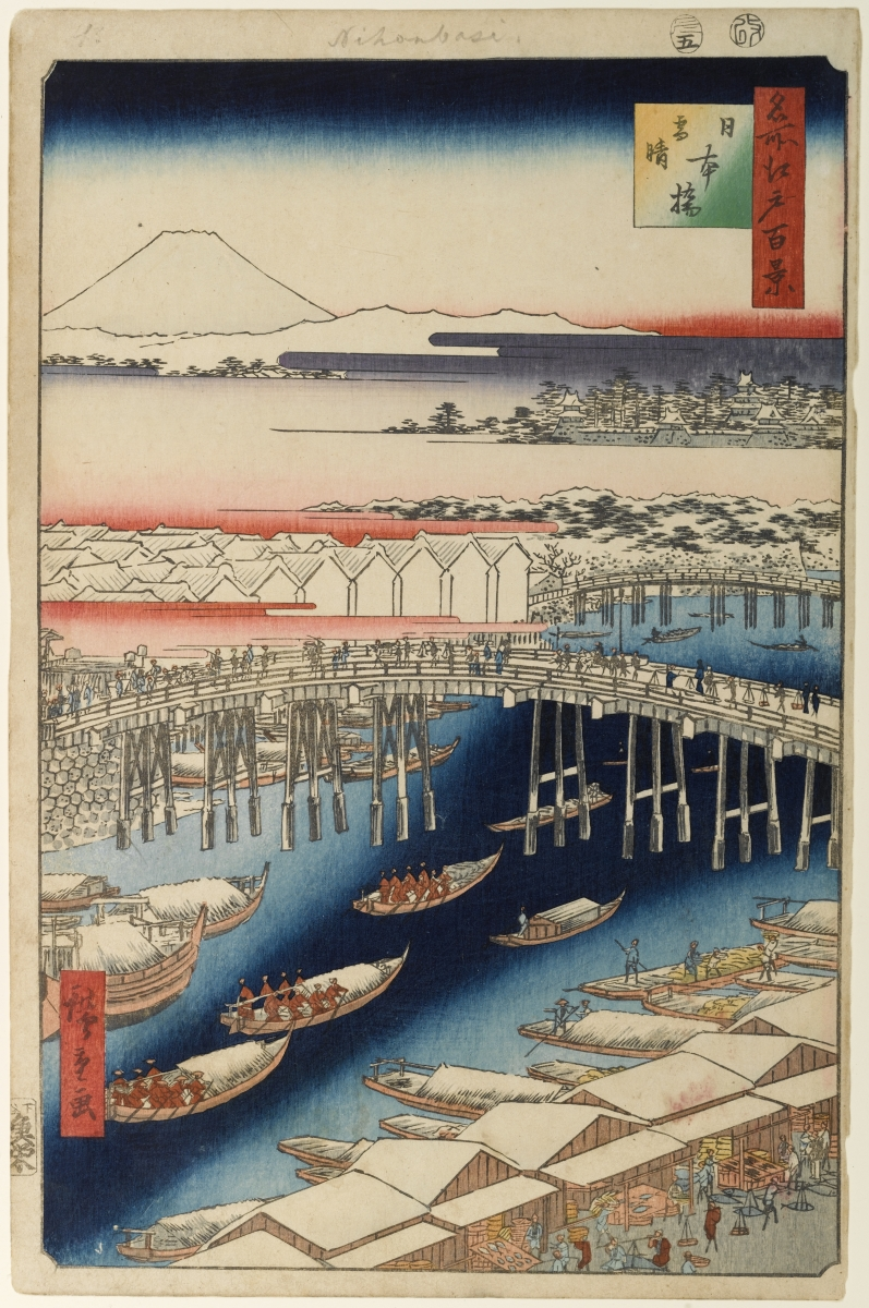 Part of the series One Hundred Famous Views of Edo, no. 001, part 1: Spring.